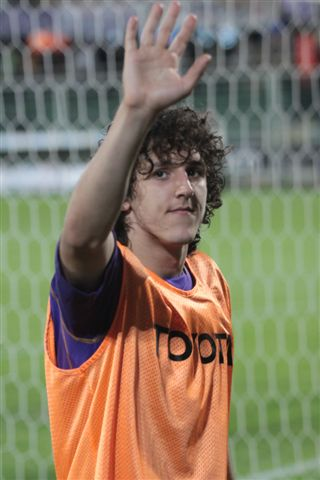 ACF Fiorentina player Stevan Jovetić